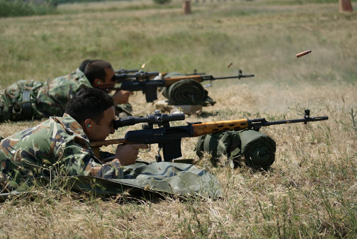 BSRF-13